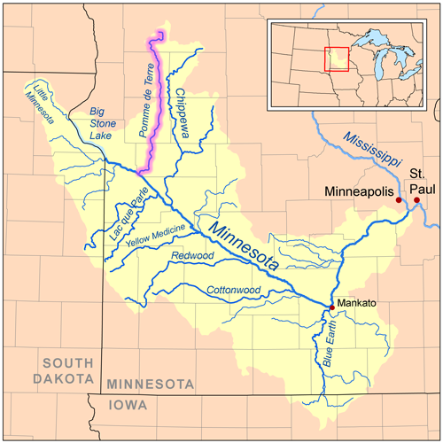 Map of the Minnesota River watershed with the Pomme de Terre River in Minnesota highlighted.